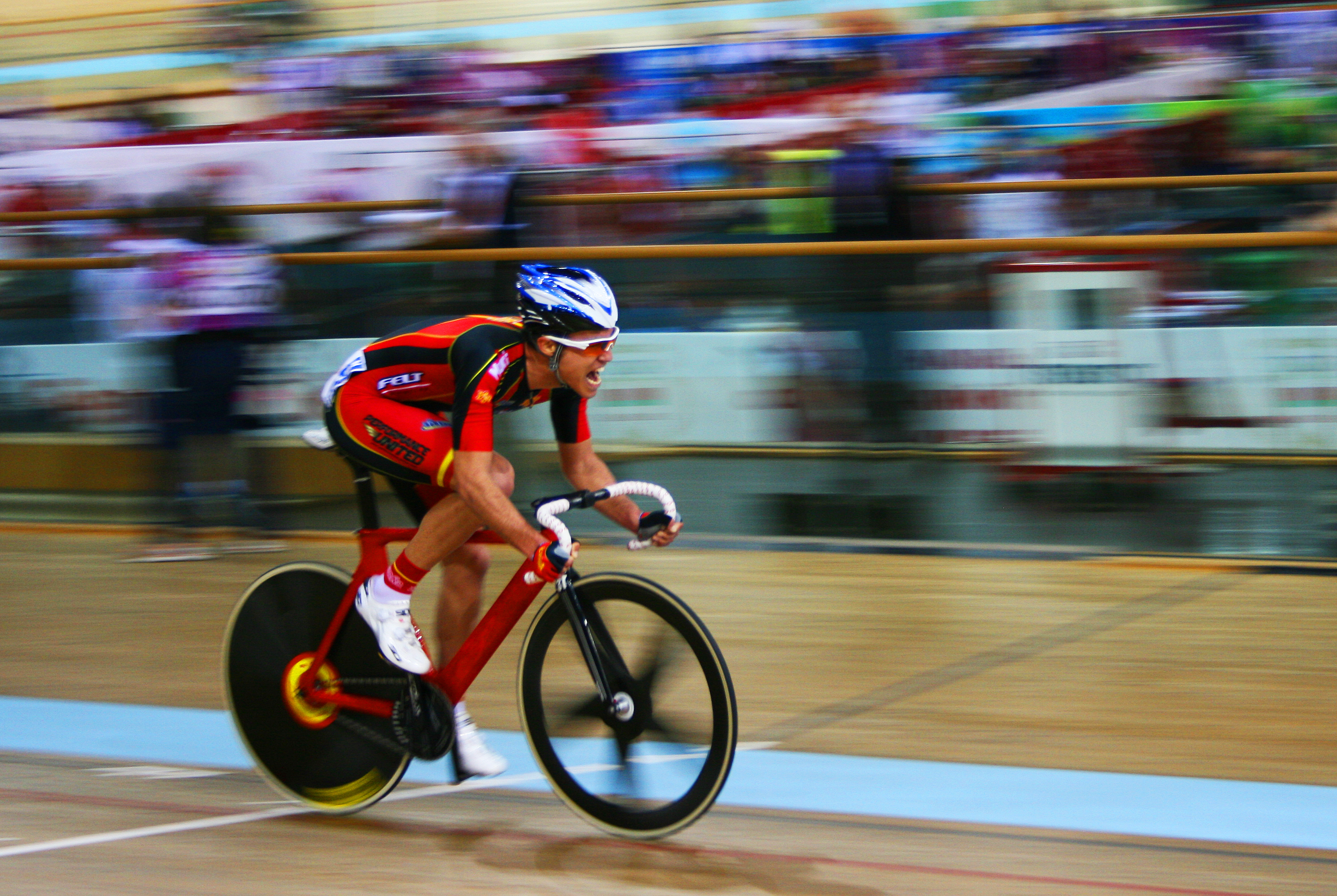 Albert Torres finishing the Madison at the UCI World Track Cycling Championships in Minsk in 2013